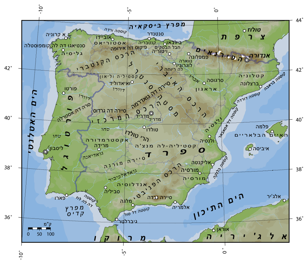 Hebrew Topographical map of Spain